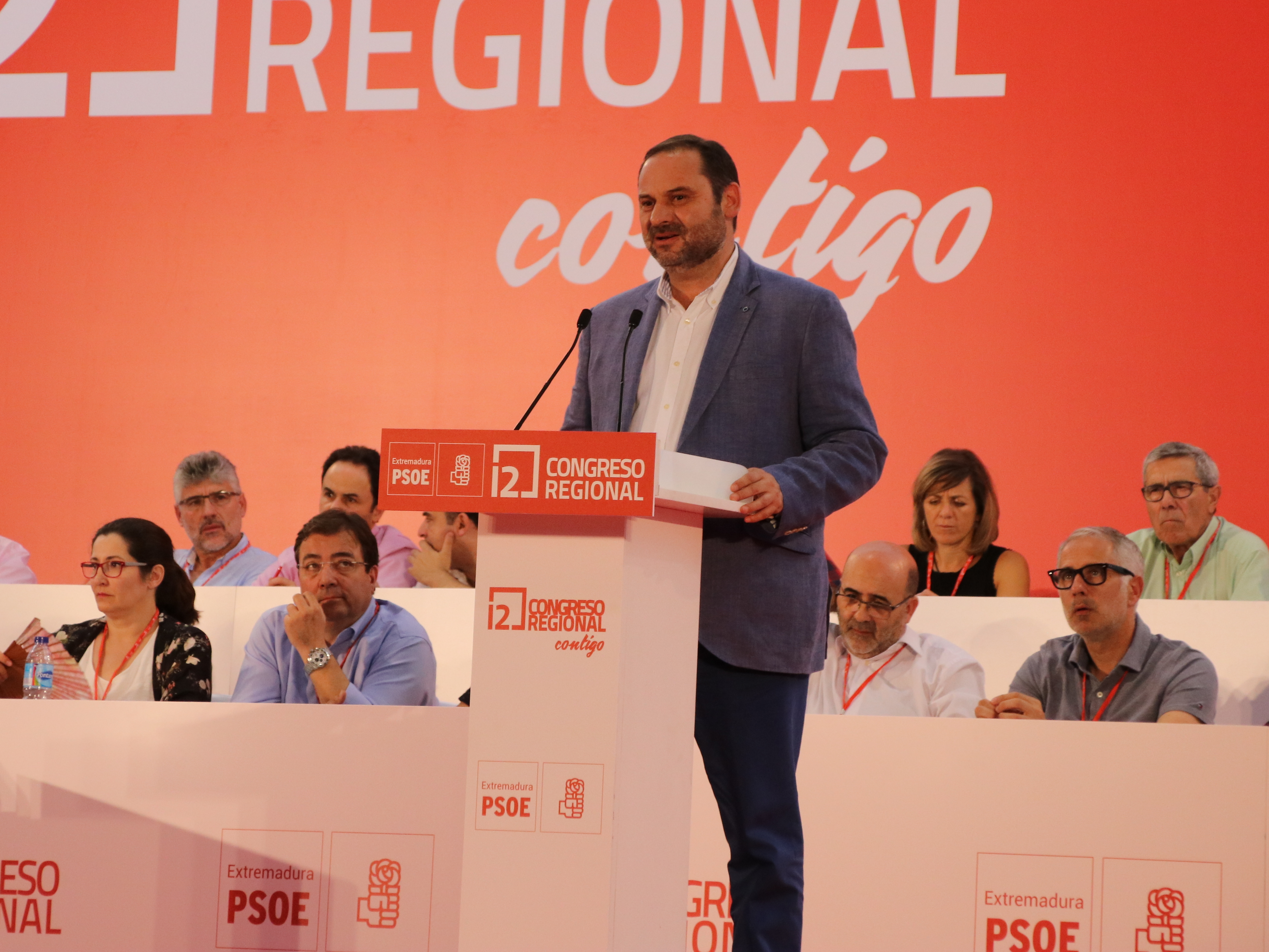 José Luis Ábalos en el 12º Congreso del PSOE de Extremadura